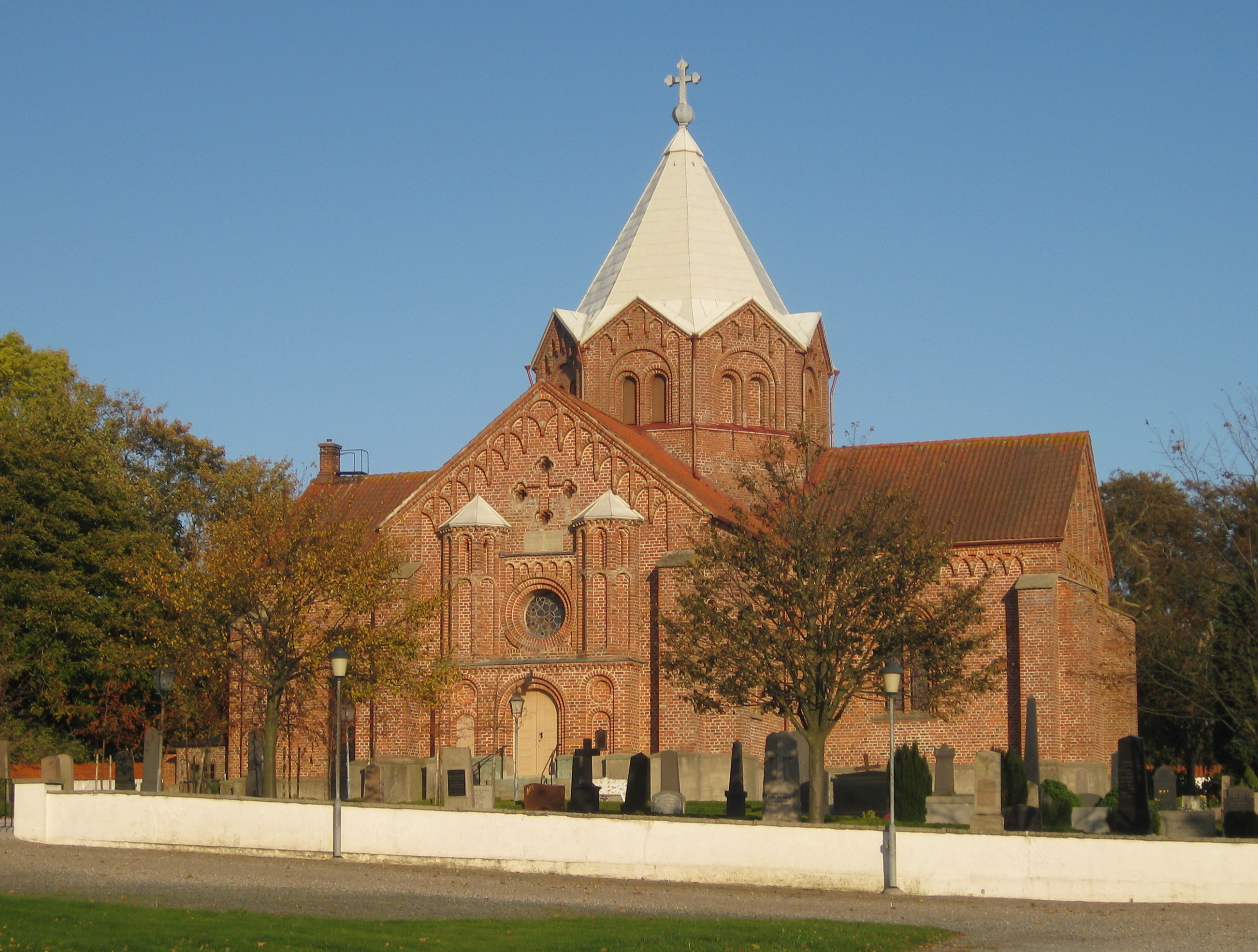 Tullstorp church, Skåne, Sweden